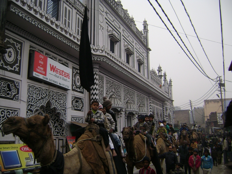 Shia Muslims in Amroha Uttar Pradesh, India Children on camels in front of Azakhana or Hosania Juloos as part of the commemoration of Muharram